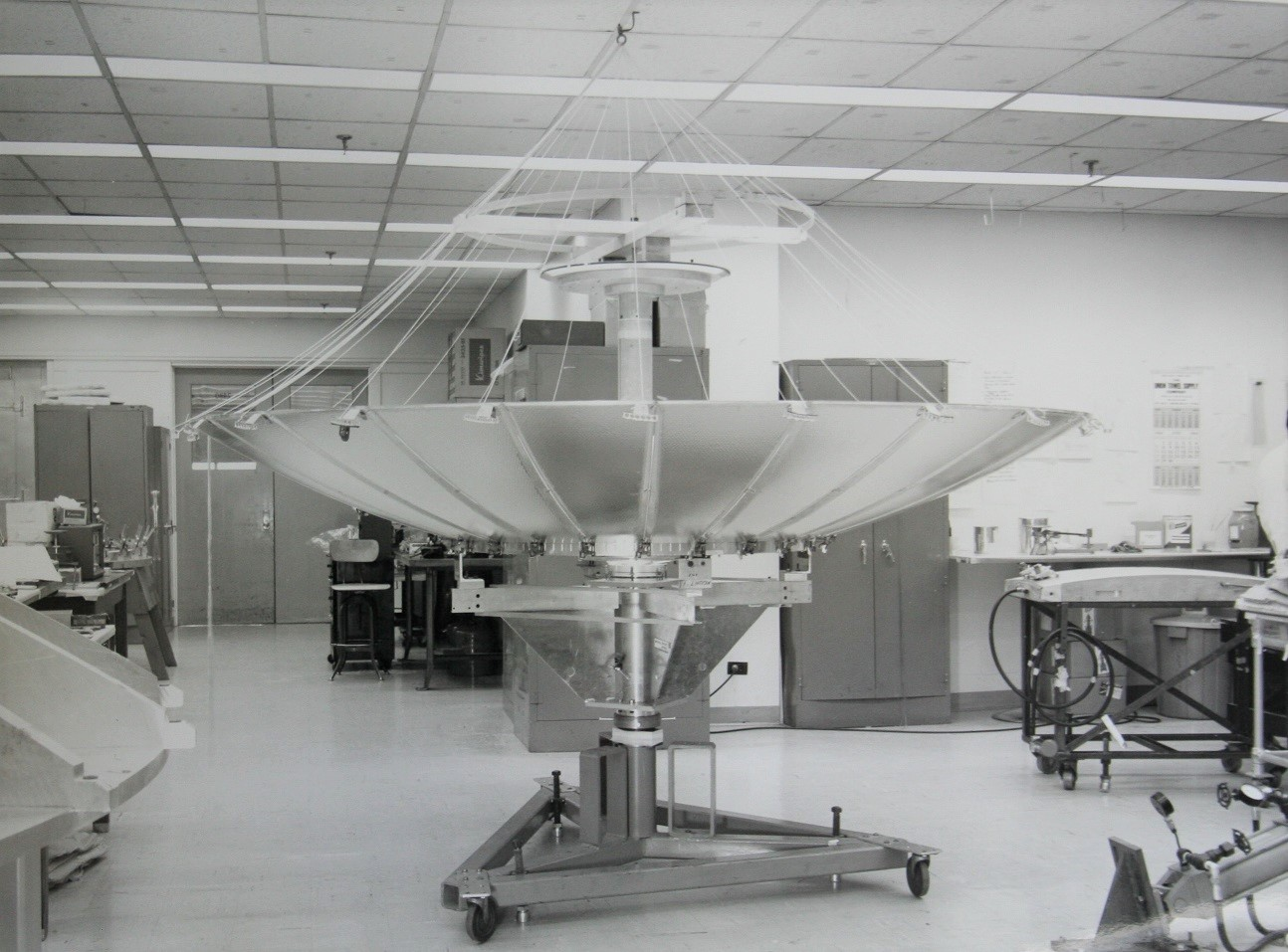 A satellite reflector being developed by the company TRW (Cleveland, Ohio) around the year 1968. This is a photo of a satellite reflector which was being developed by TRW near Cleveland Ohio around the year 1968. (A calendar on the wall at right displays the months March, April, and May of the year 1968). The company TRW is now defunct, but major sections of it have been bought out by other companies, such as TRW automotive, Northrop Grumman, and the Goodrich Corporation. Some people who have worked for TRW have also moved to other companies such as SpaceX. (This photo is released with the license shown because it is 50 years old and the technology it depicts is considered antiquated by modern standards, and the photo is not regarded as classified).